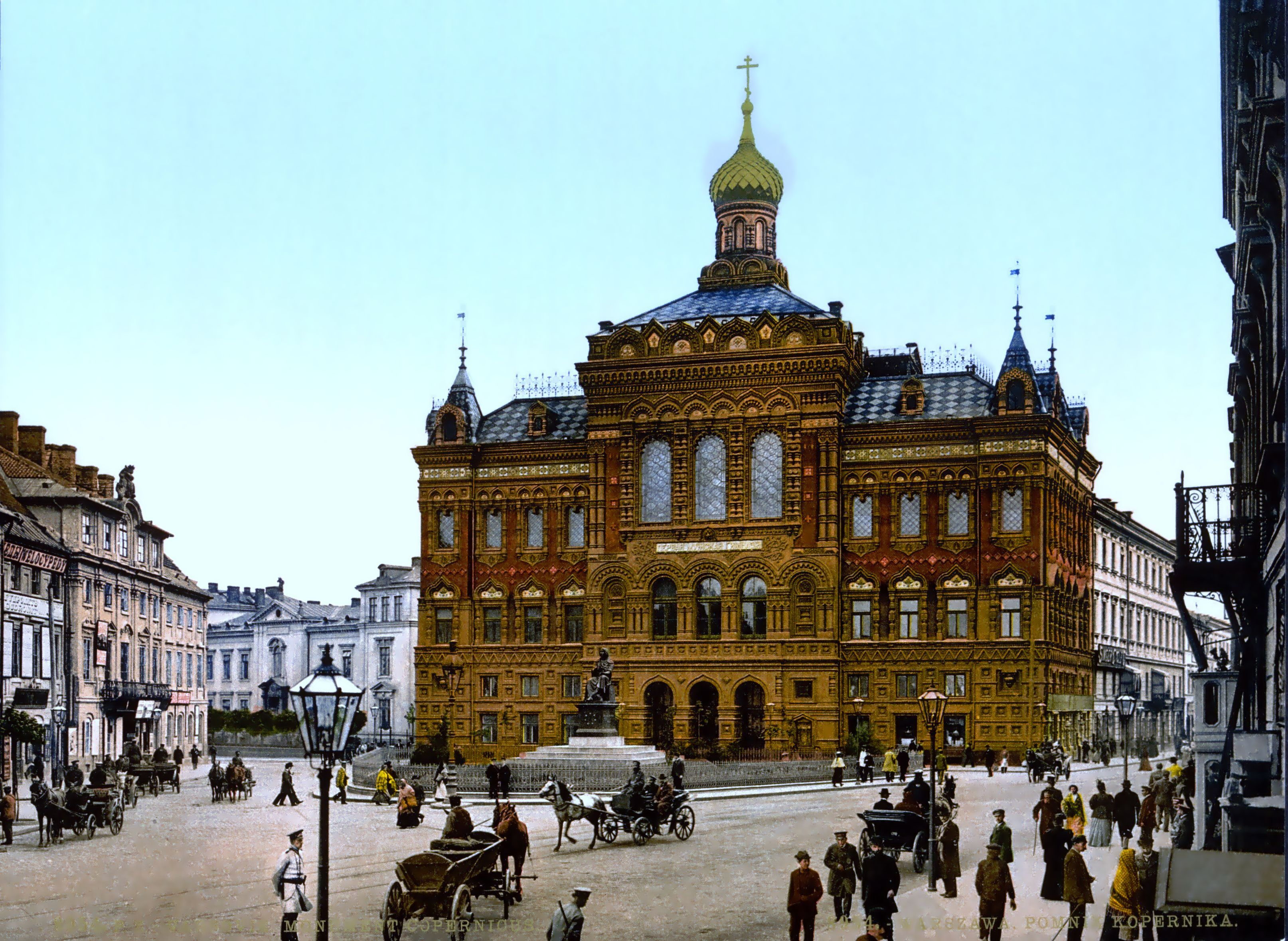 Staszic Palace in Warsaw, as it appeared before 1914.